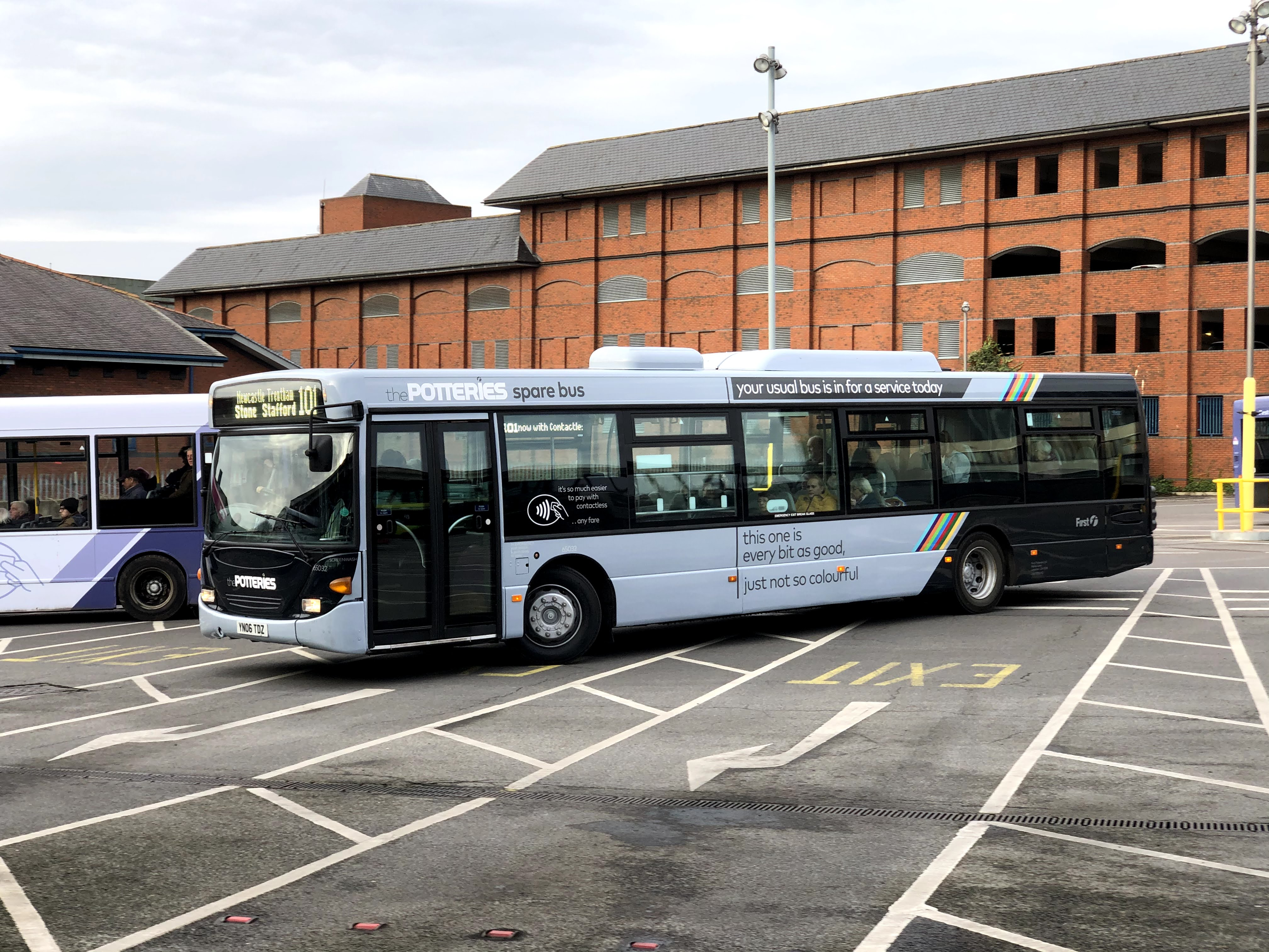 FIrst Potteries Scania Omncity 65032 in "spare livery"